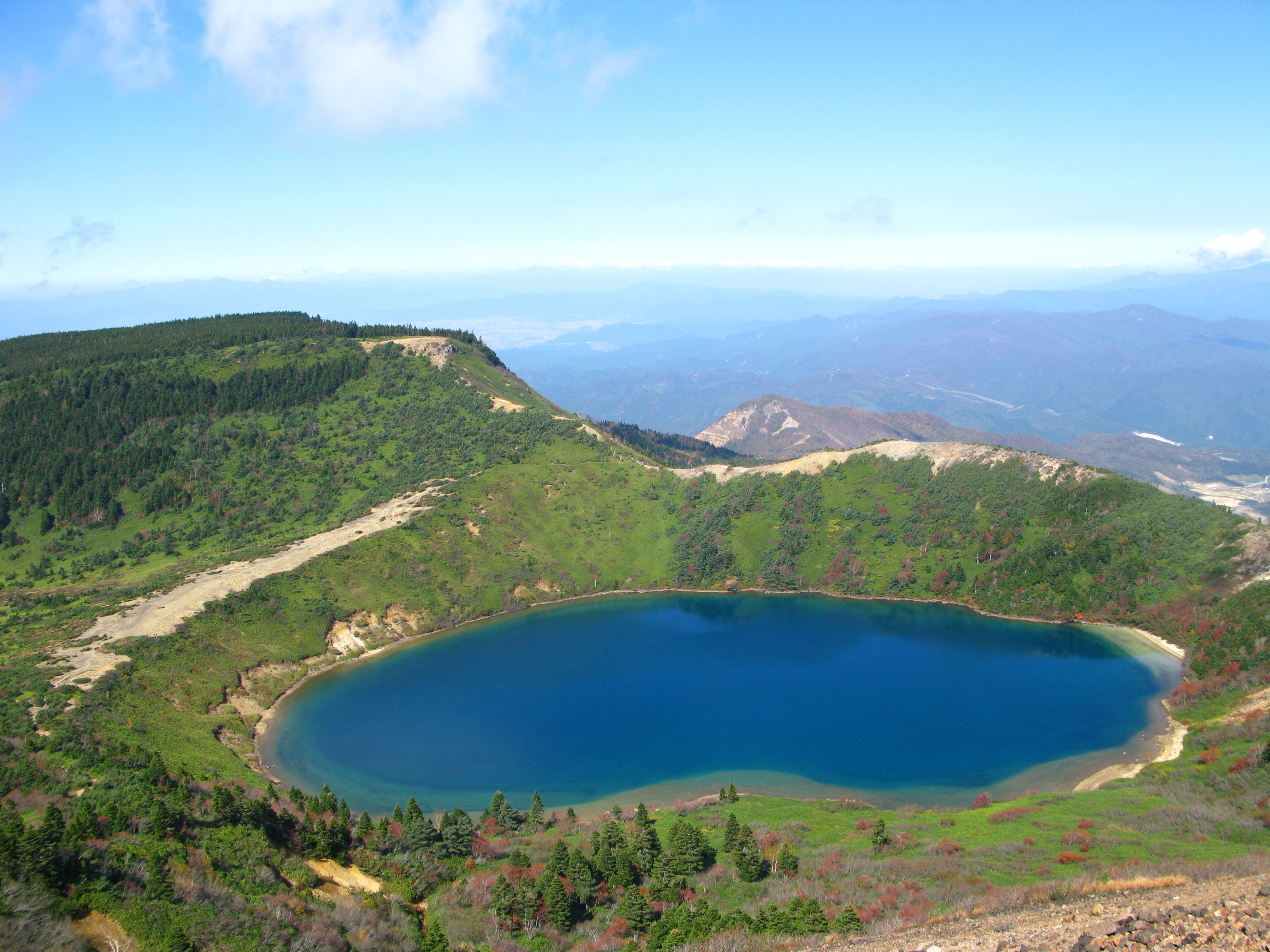 Goshikinuma on Mt. Issaikyō in Fukushima, Fukushima